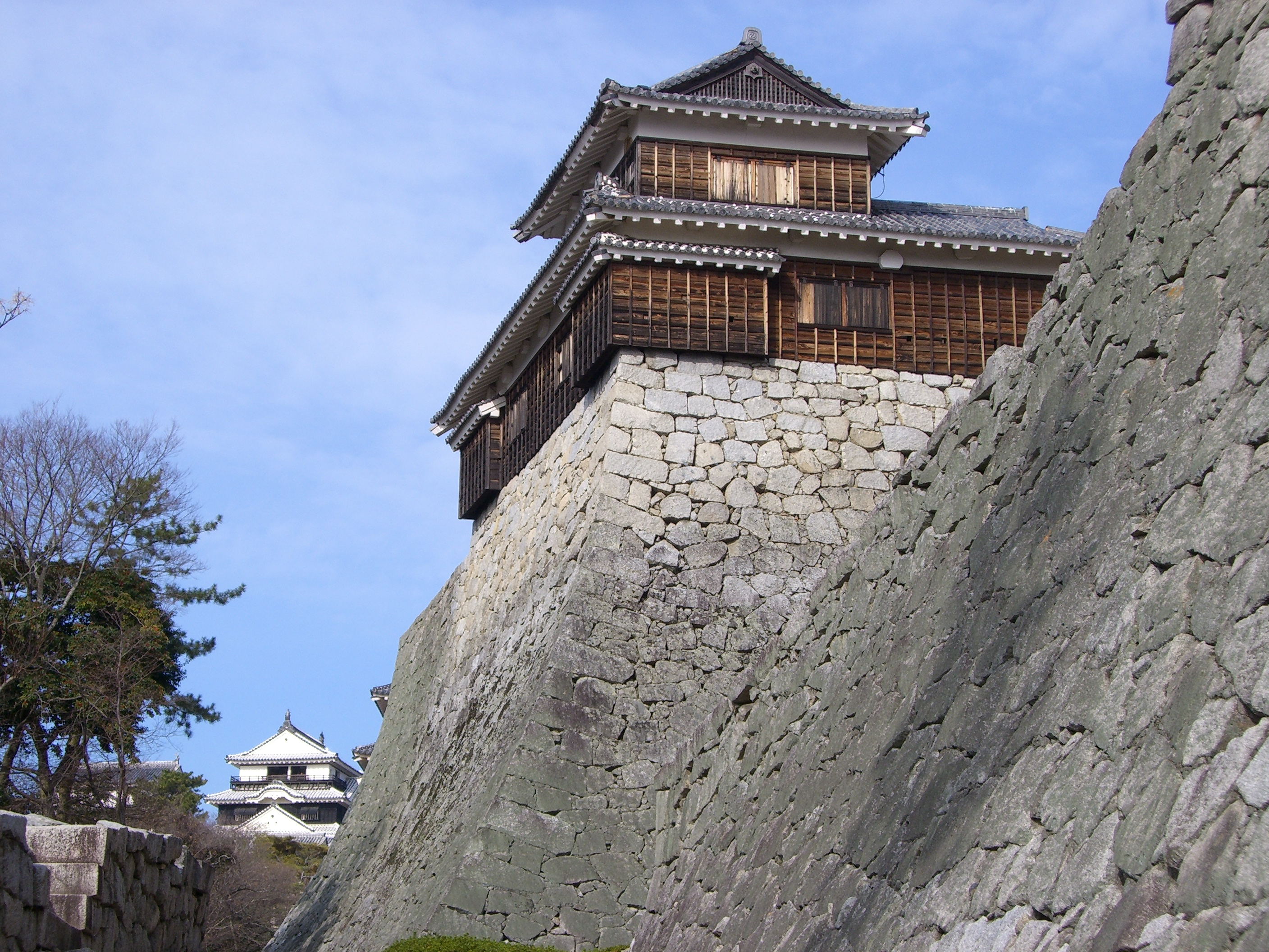 Taiko(drum)-Yagura on Taka-ishigaki (stone wall) and Matsuyama castle tower. (Ehime, JAPAN)